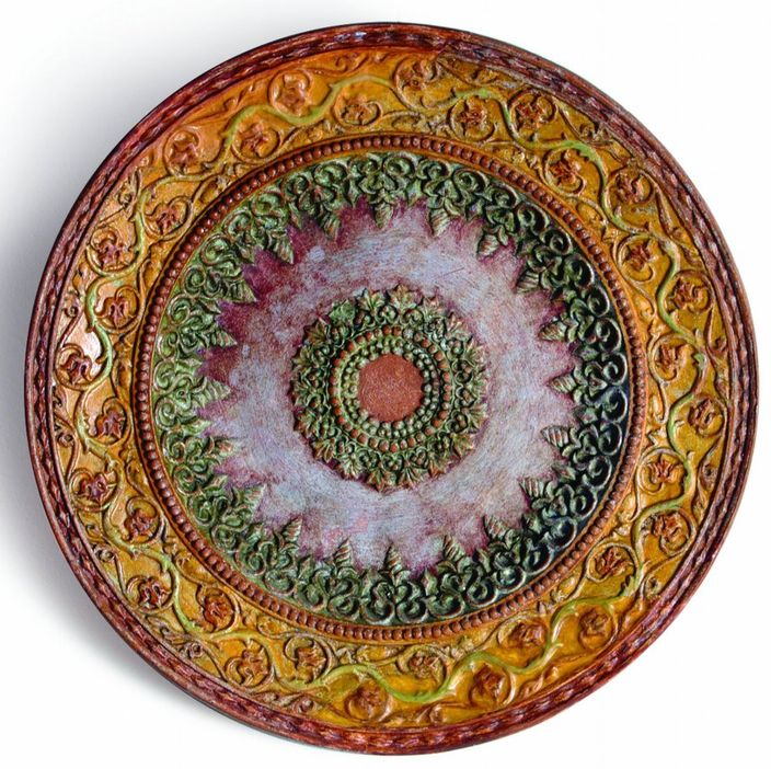 Decorative ceramic plate from Grūžiai Manor